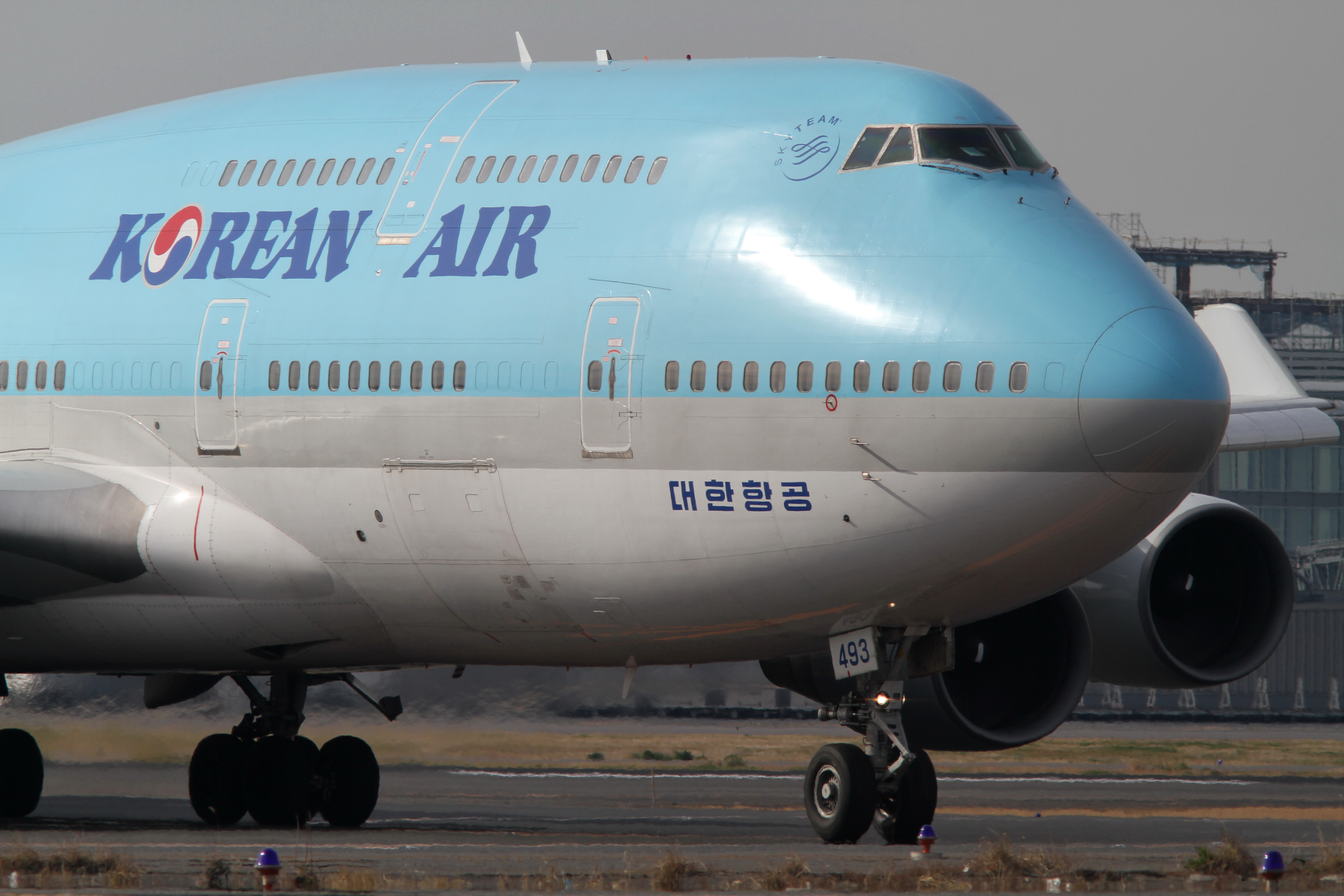 Tokyo International Airport, Boeing 747-4B5, c/n:26398, Korean Air